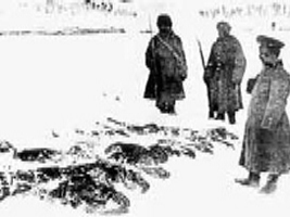 Battle of Sarıkamış The Russian soldiers gathering the frozen Ottoman soldiers from the mountain passes. Schlacht von Sarıkamış Russische Soldaten bergen erfrorene osmanische Soldaten auf den Pässen